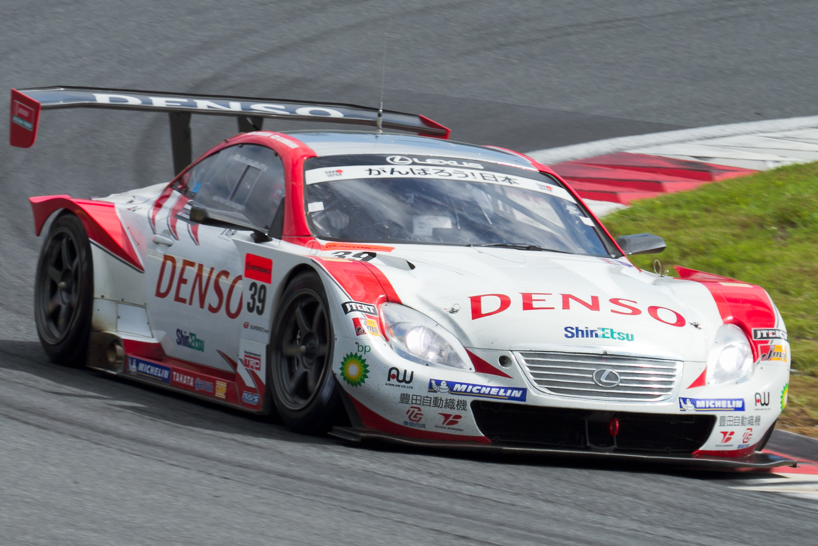 Super GT 2011 Rd.6 Fuji GT 250km: Takuto Iguchi (Lexus Team SARD) driving the Lexus SC GT500.